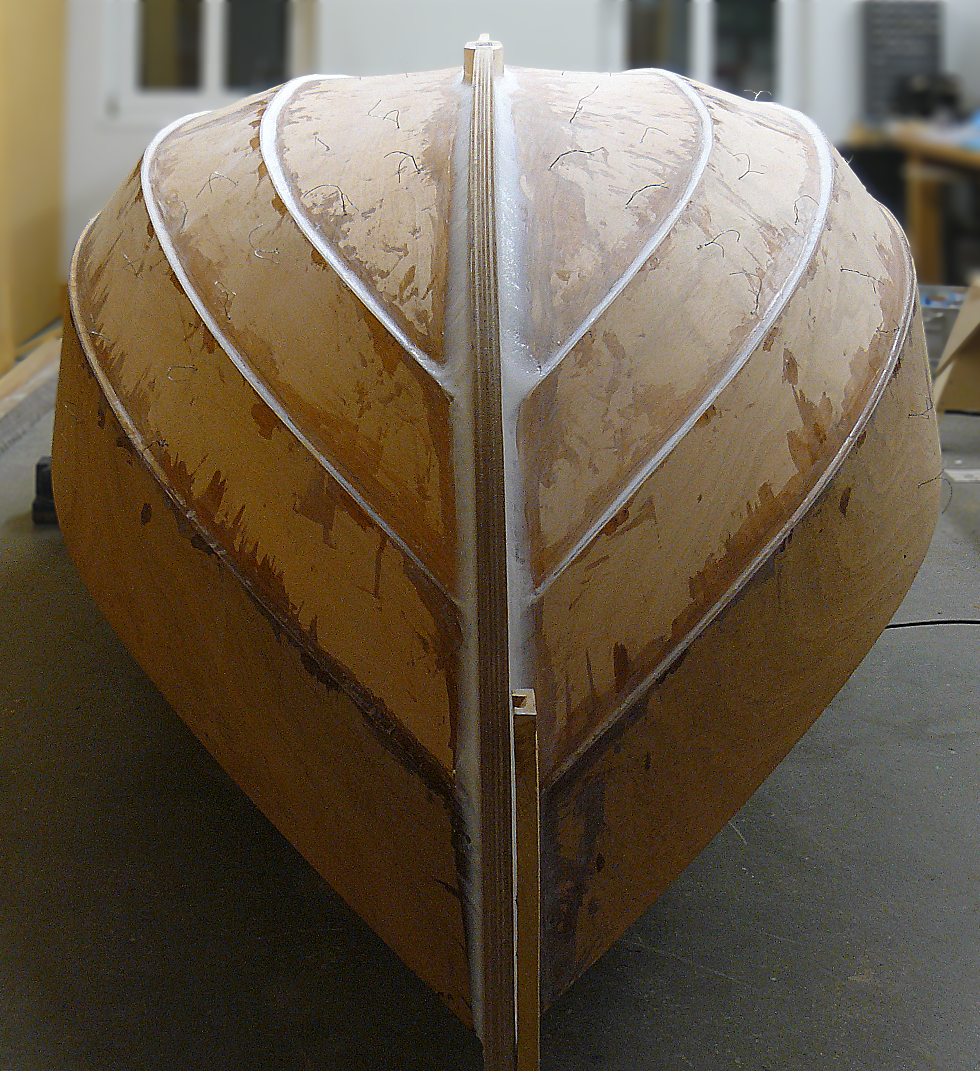 Lobster 12.5-Boatbuilding with stitch and glue technique